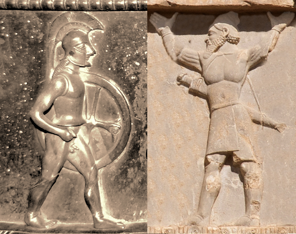 Spartan hoplite and Hidus Achaemenid warrior Egypt, Greece, and Rome: Civilizations of the Ancient Mediterranean by Charles Freeman p.171 Egypt, Greece, and Rome: Civilizations of the Ancient Mediterranean by Charles Freeman p.154